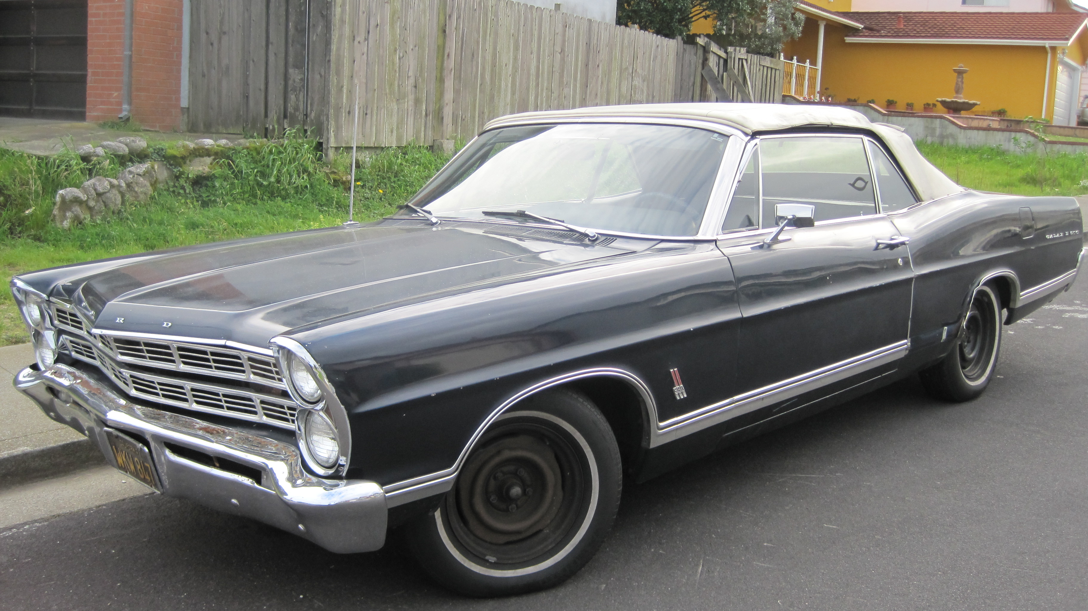 A convertible Ford Galaxie 500 with a 390 cu. in. engine.